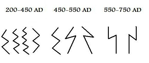 evolution of the sowilo rune.